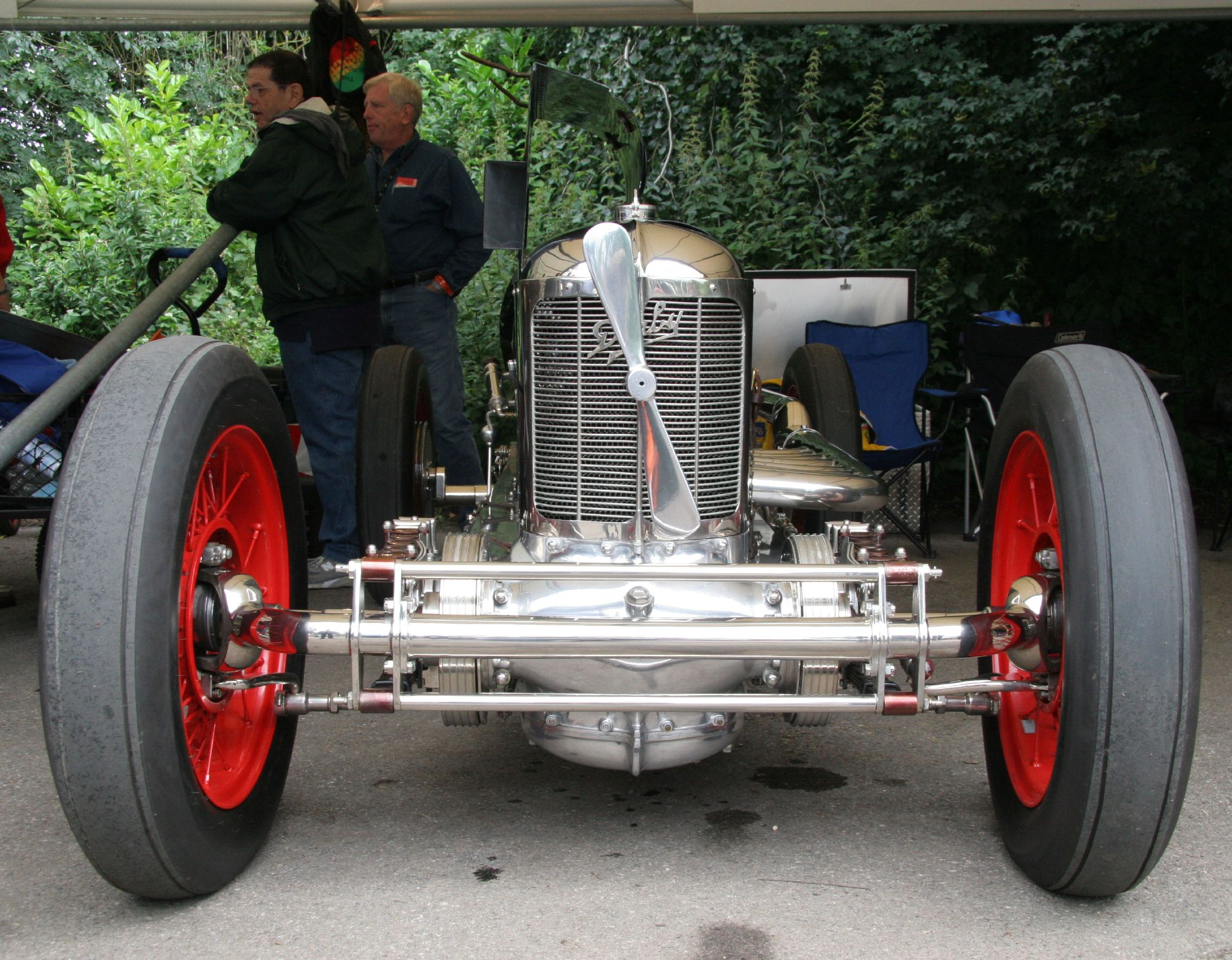 Indy 500 racer